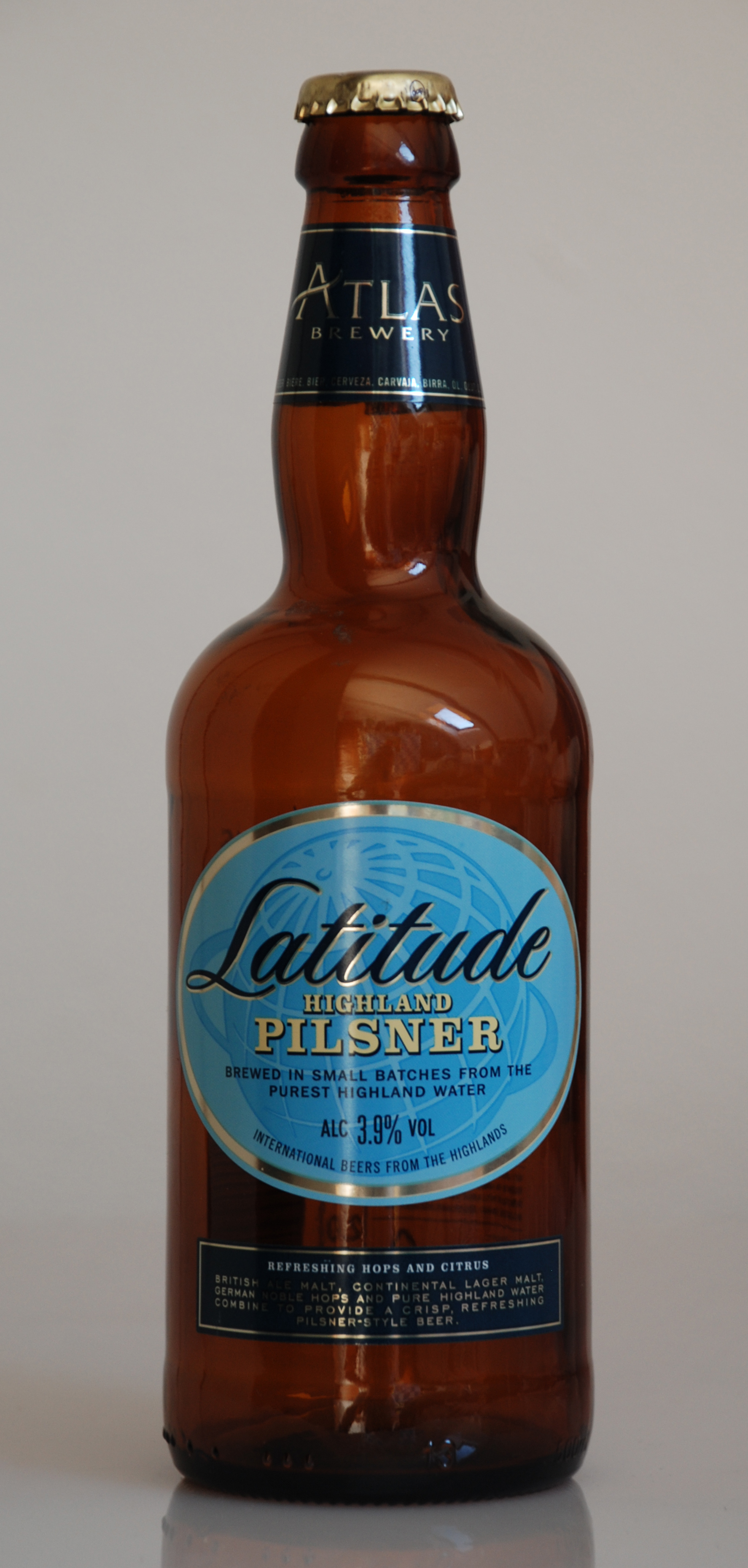 Empty 50cl bottle of Latitude beer.